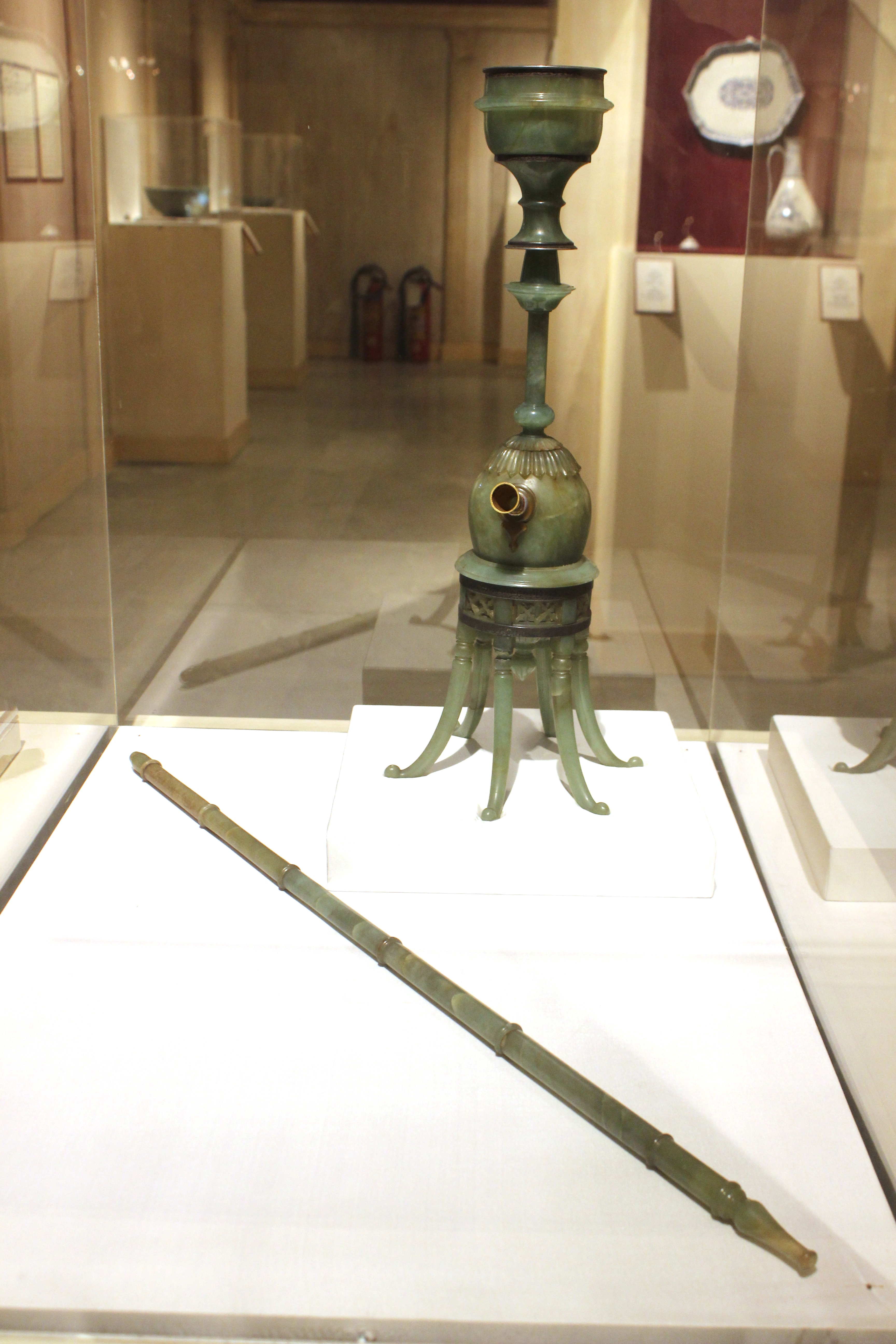 An inscribed Huqqa of Jahangir, 1626 A.D. Acc. no. 61-508